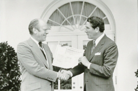 U.S. President Gerald Ford with the Governor of Tennessee, Winfield Dunn, at the White House.